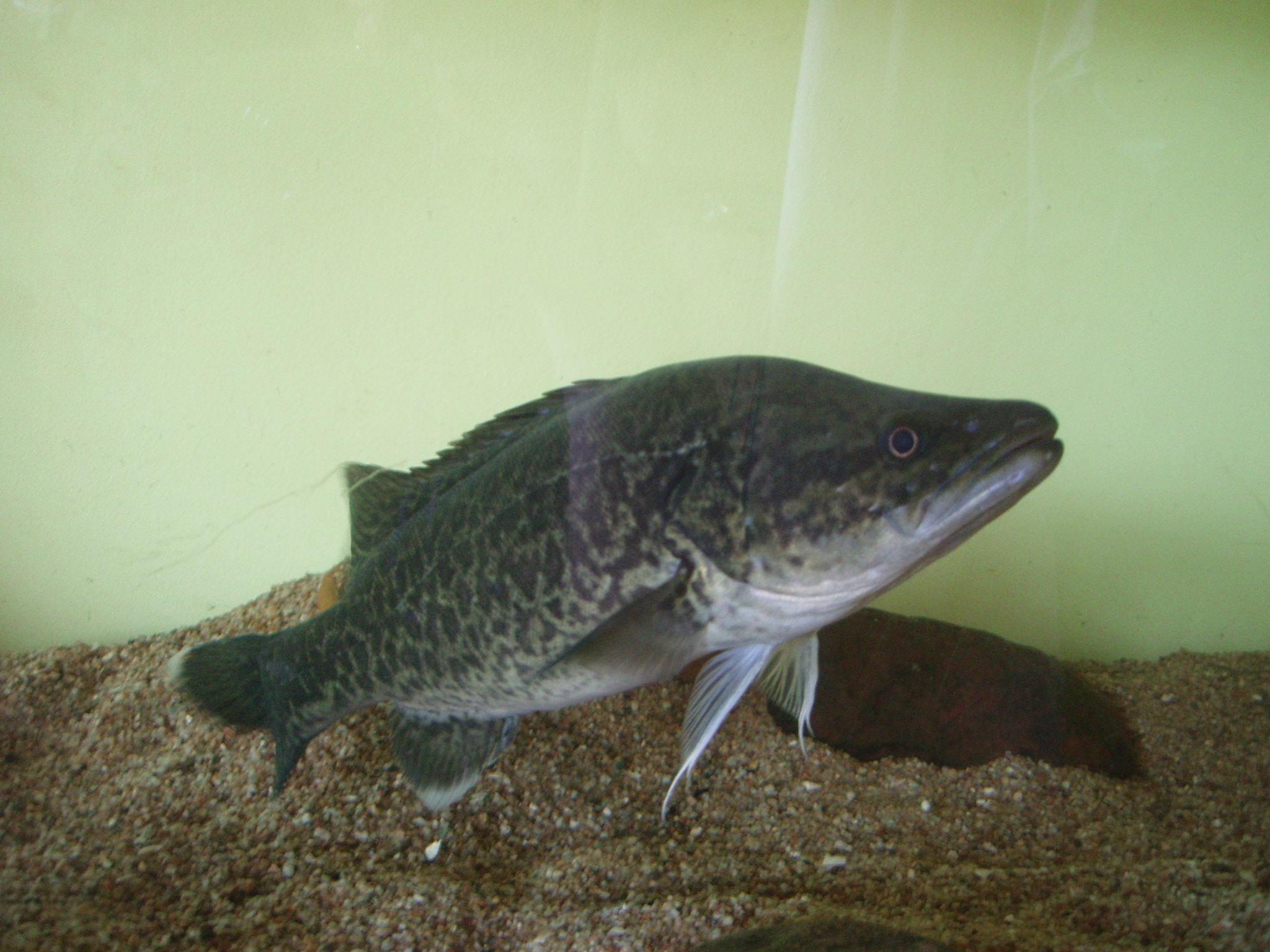 An attractive juvenile Murray cod in an aquarium displaying interactive behaviour with the photographer. Codman (talk) 02:09, 19 September 2008 (UTC)